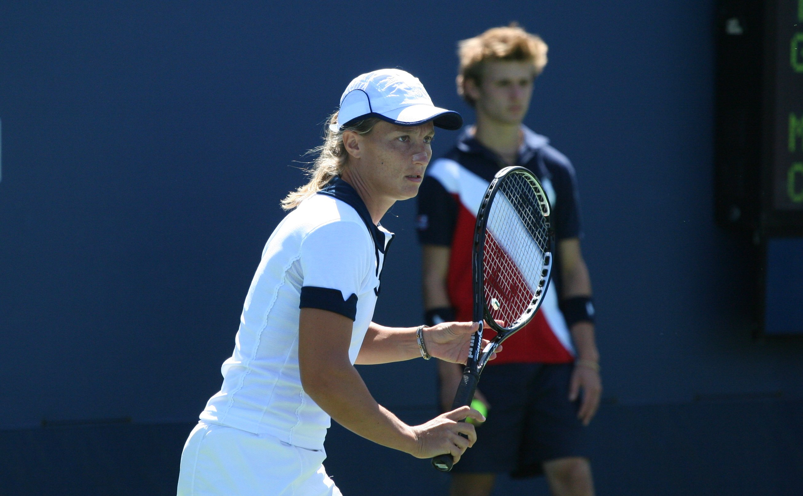 U.S. Open Tuesday, Sept. 1, 2009